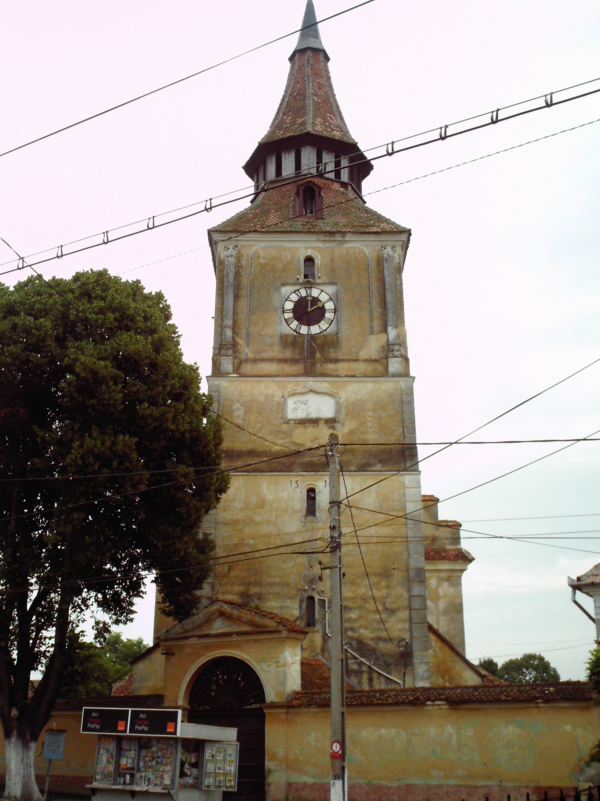 Transylvanian Saxon Church in Bod, Romania